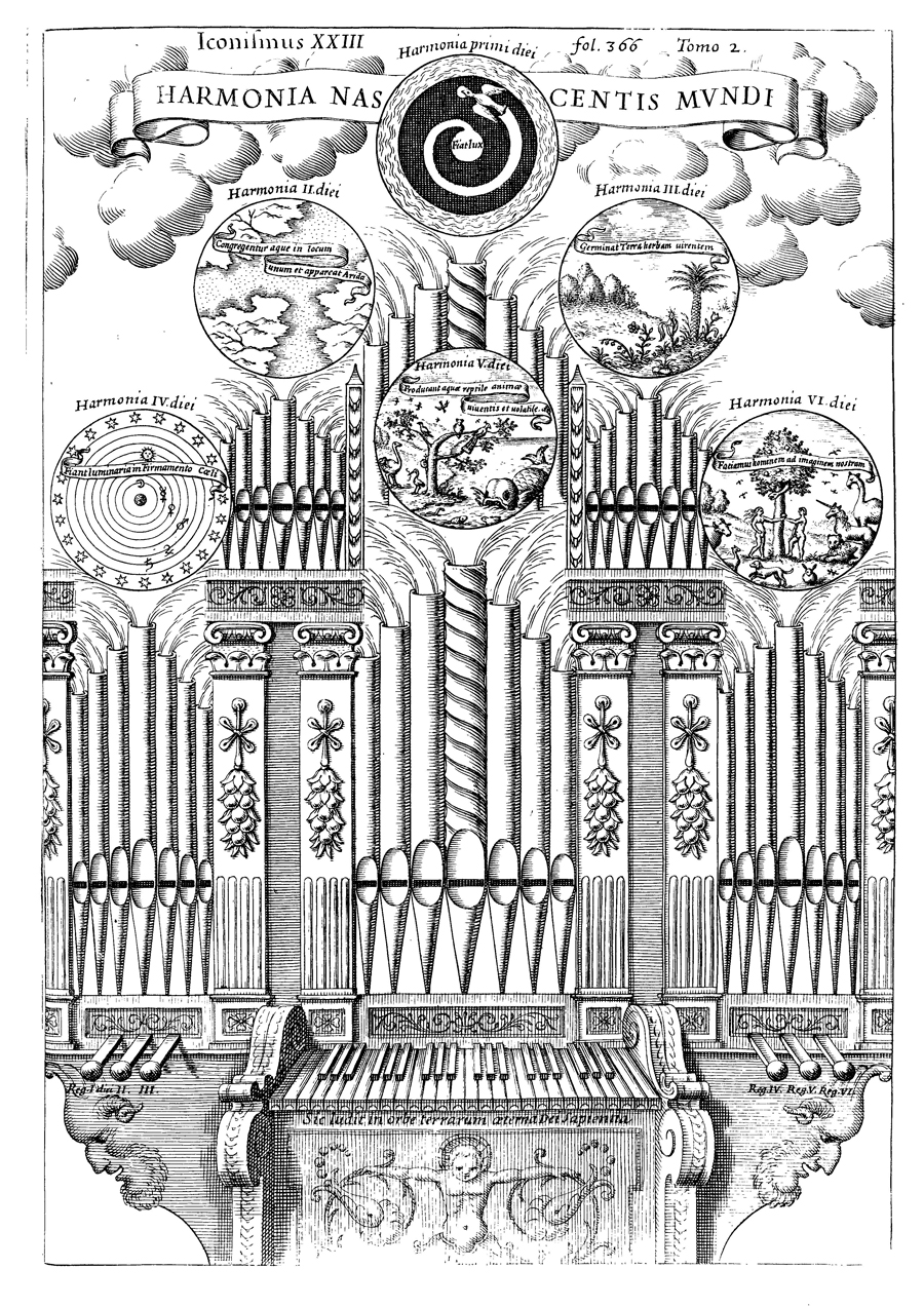 Harmony of the birth of the world, represented by a cosmic organ.